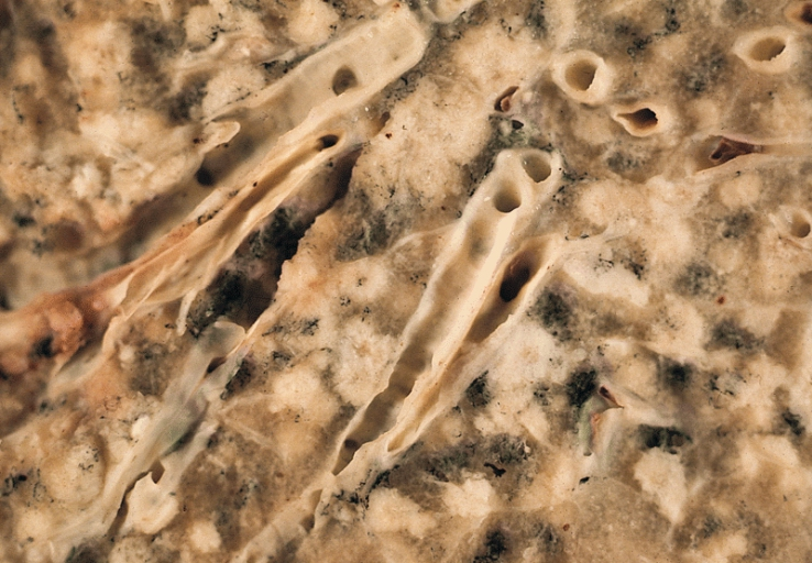 LOWER RESPIRATORY TRACT: BRONCHIOLOALVEOLAR CARCINOMA, NONMUCINOUS TYPE This gross photograph is from the lungs of a patient who died of widespread bilateral BAC. A cut surface of the formalin-inflated lungs shows multiple, small, gray-white nodules with absence of necrosis, hemorrhage, or architectural distortion. The bronchi course normally through the lung tissue, and the presence of air bronchograms radiographically in such cases is not surprising.